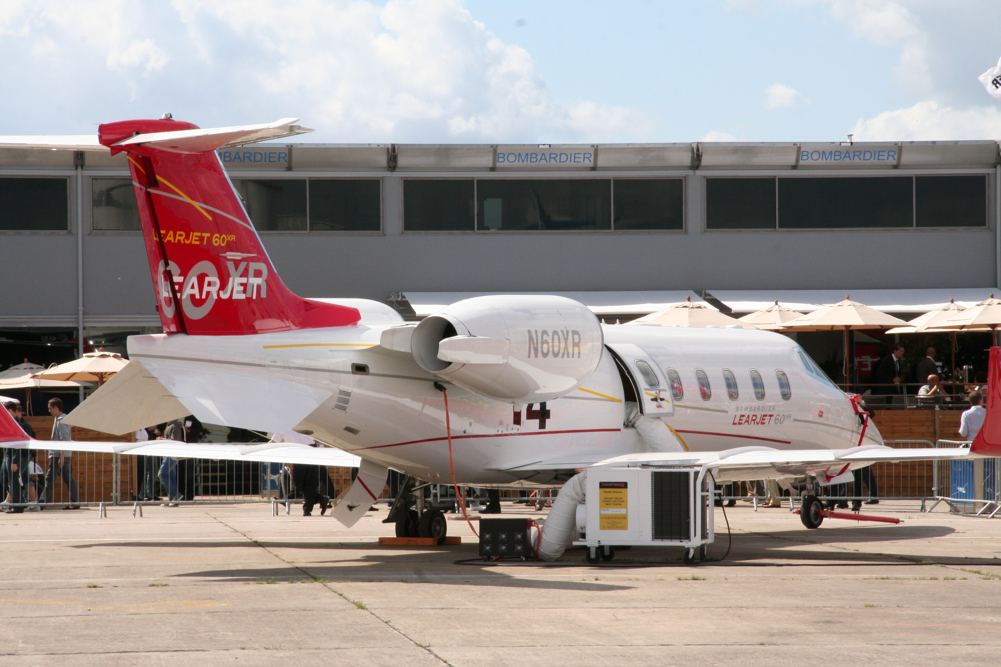 Learjet 60 XR - Paris Air Show 2009